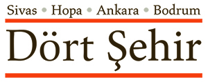 This is the official image of the work.